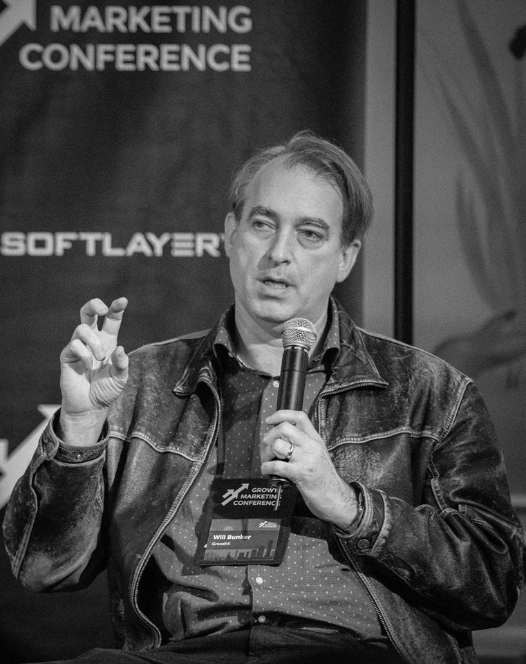 Will Bunker speaking at the 2015 Growth Marketing Conference at Hotel Kabuki in San Francisco, California.